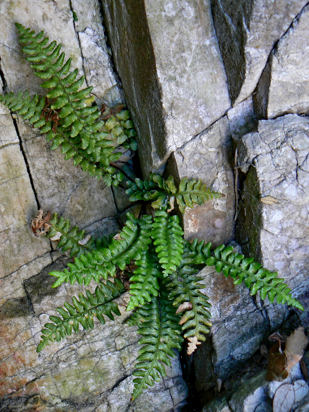 Asplenium marinum, on cliffs, Costa de Cantabria, Spain